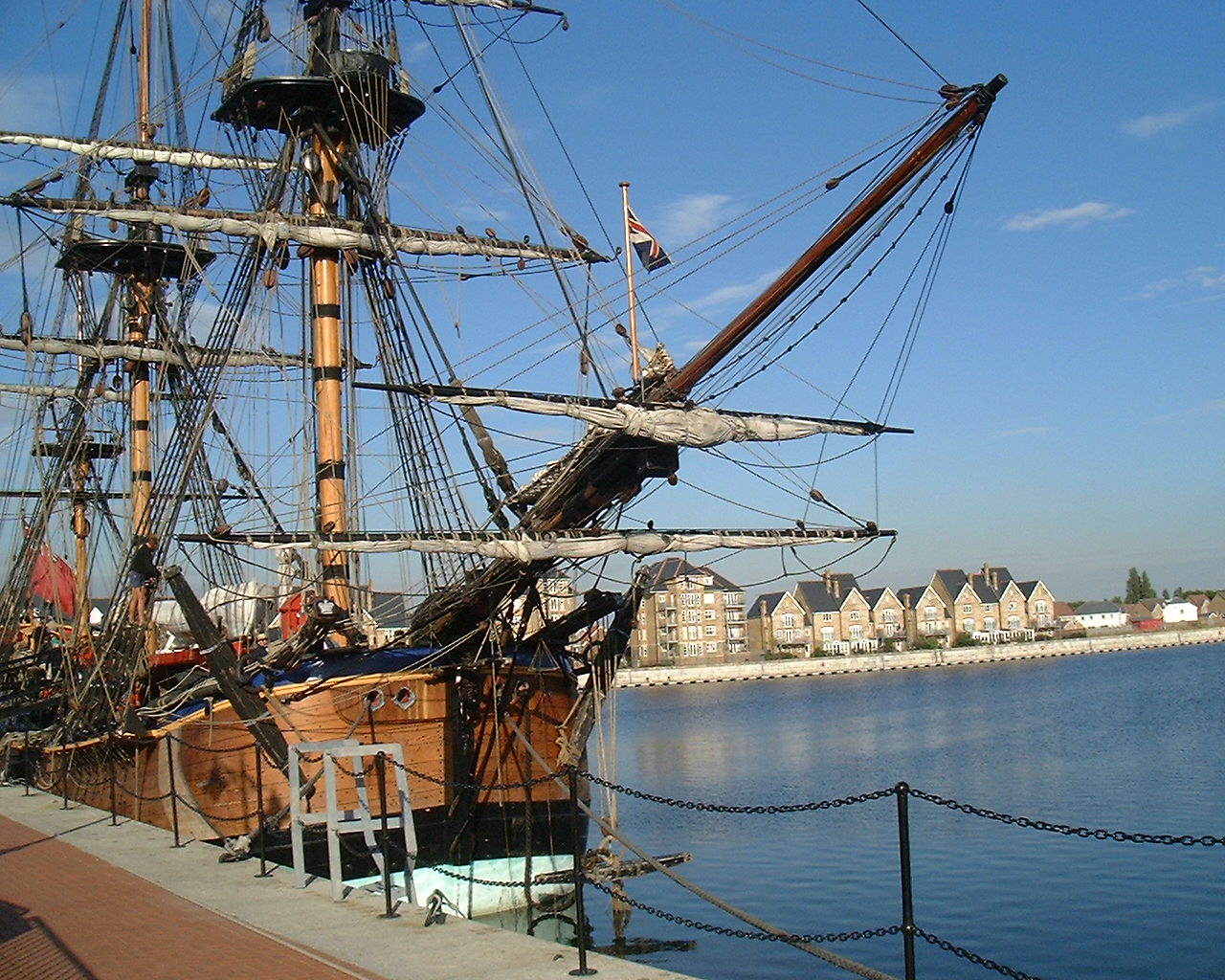 HM Bark Endeavour visited Chatham Dockyard, No. 2 basin, in 2003. Her mooring location is give below. The starboard bow from the quayside.